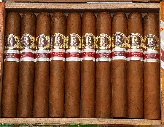 Box of Vegas Robainas Maestros, Edicion Reginales Espana